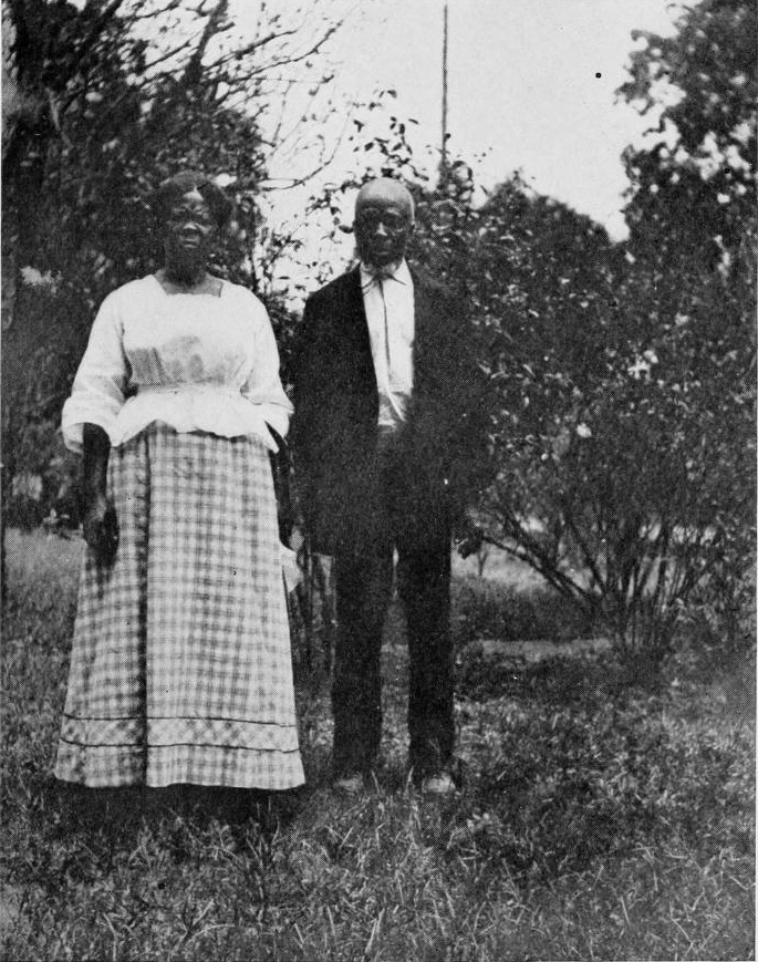 Abaché and Kazoola. Cudjoe Kazoola Lewis and Abache were among the last group of Africans forcibly transported to the United States aboard the slave ship Clotilde.